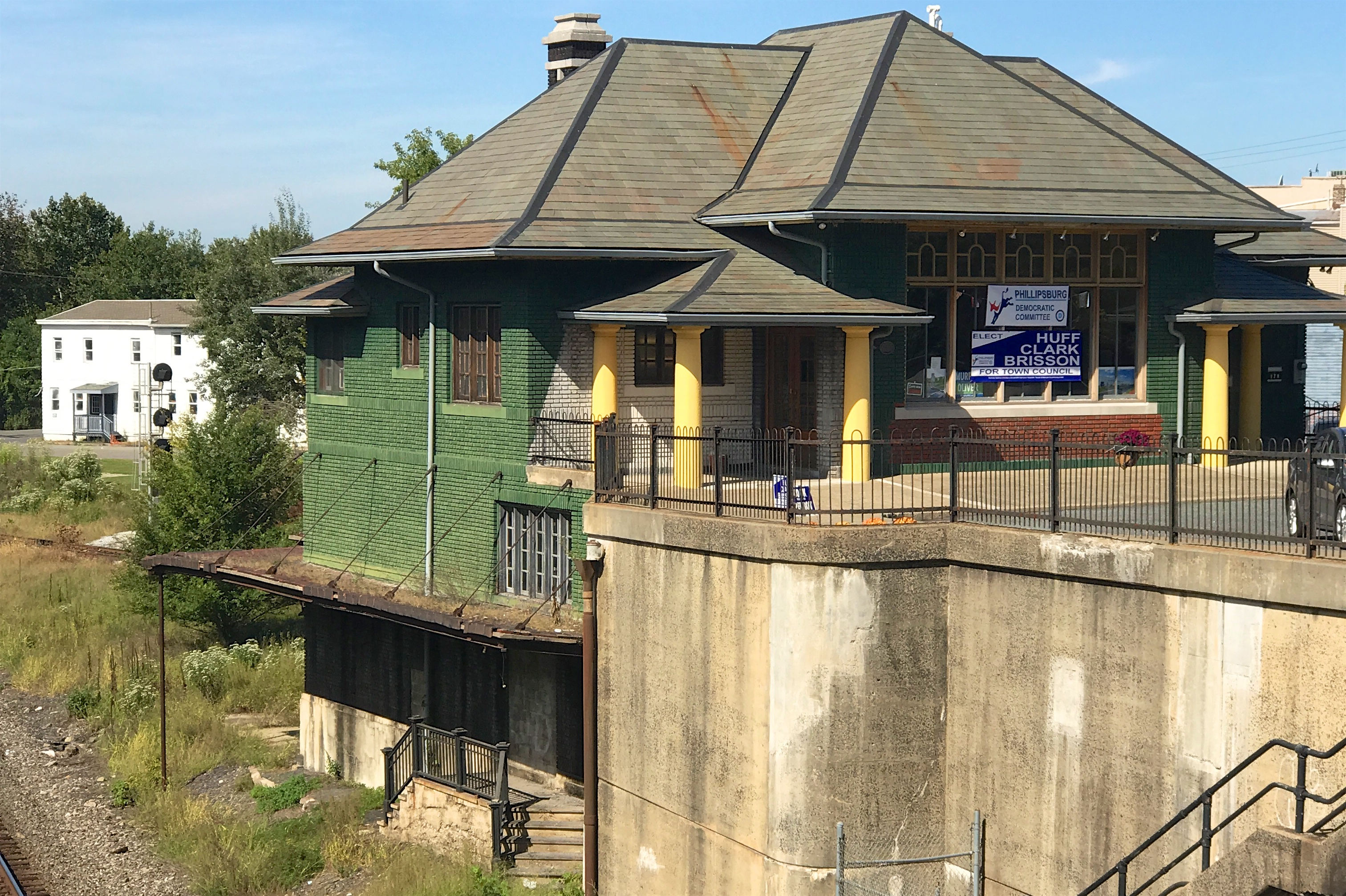 The Phillipsburg Union Station in Phillipsburg, New Jersey. Key contributing property #61 of the Phillipsburg Commercial Historic District.